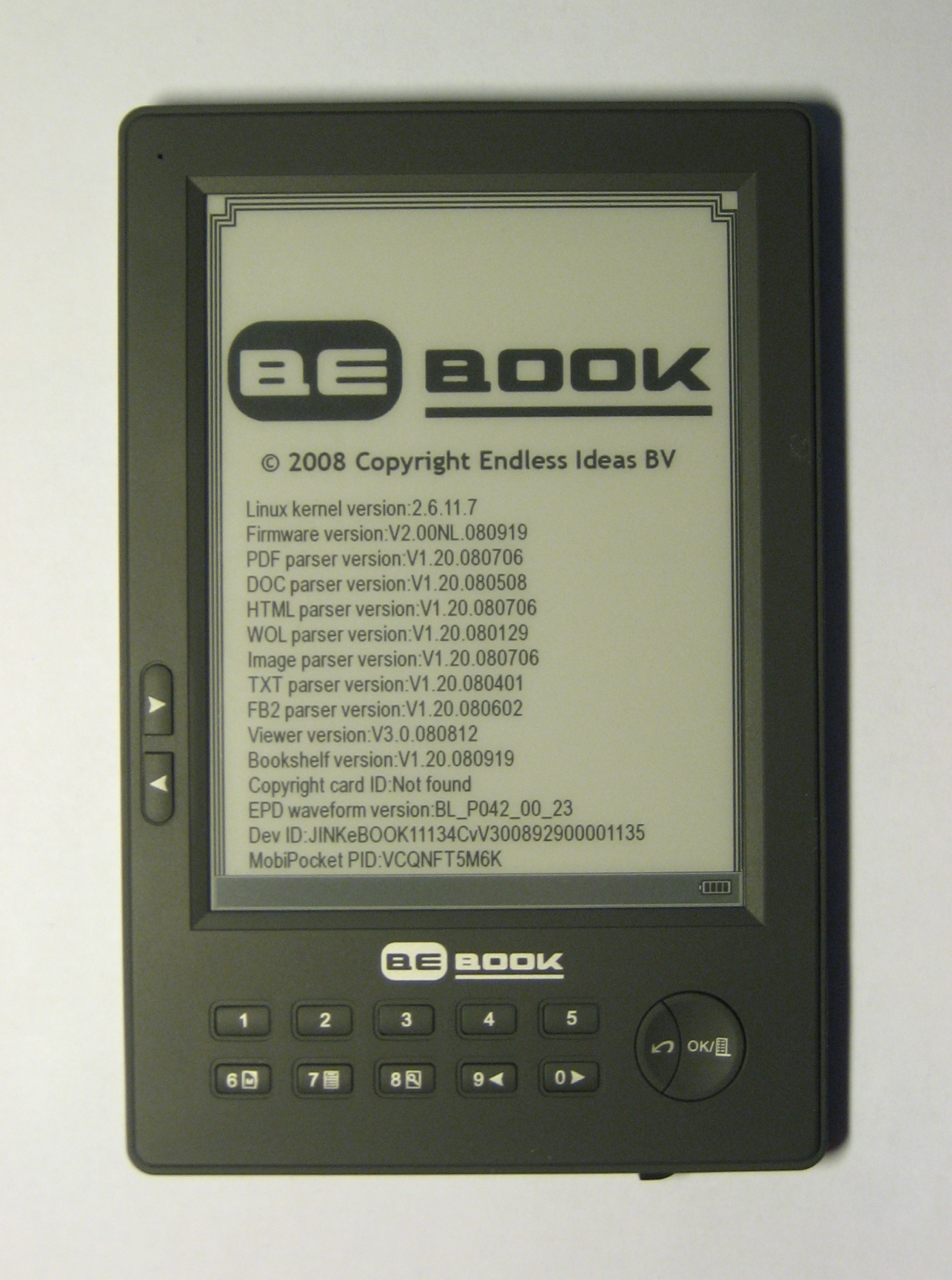 BEBOOK e-book reader with the "About" screen displayed.